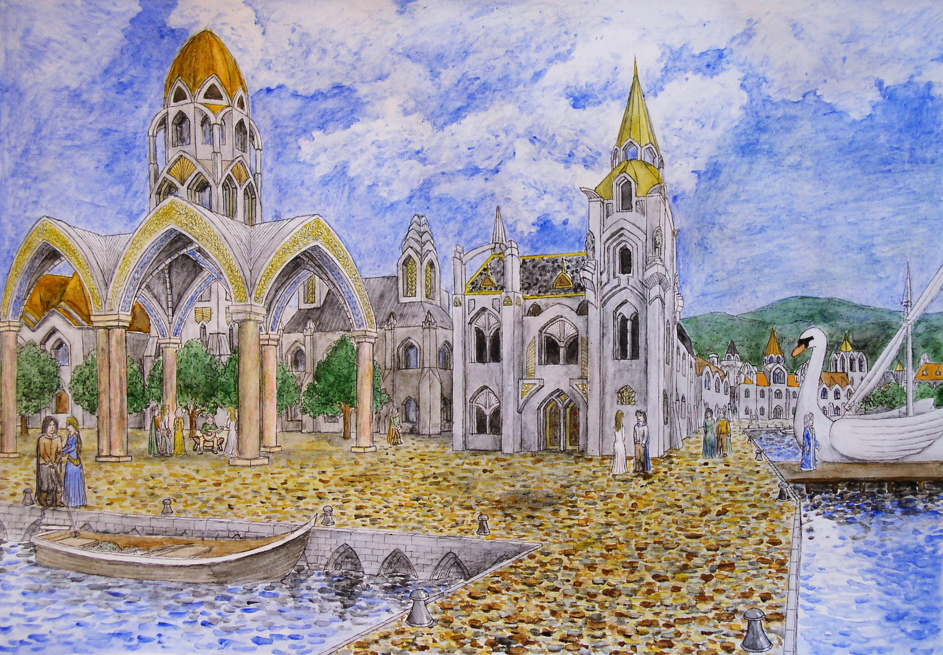 Brithombar, one of the Havens of the Falas. Illustration by Matěj Čadil [1]